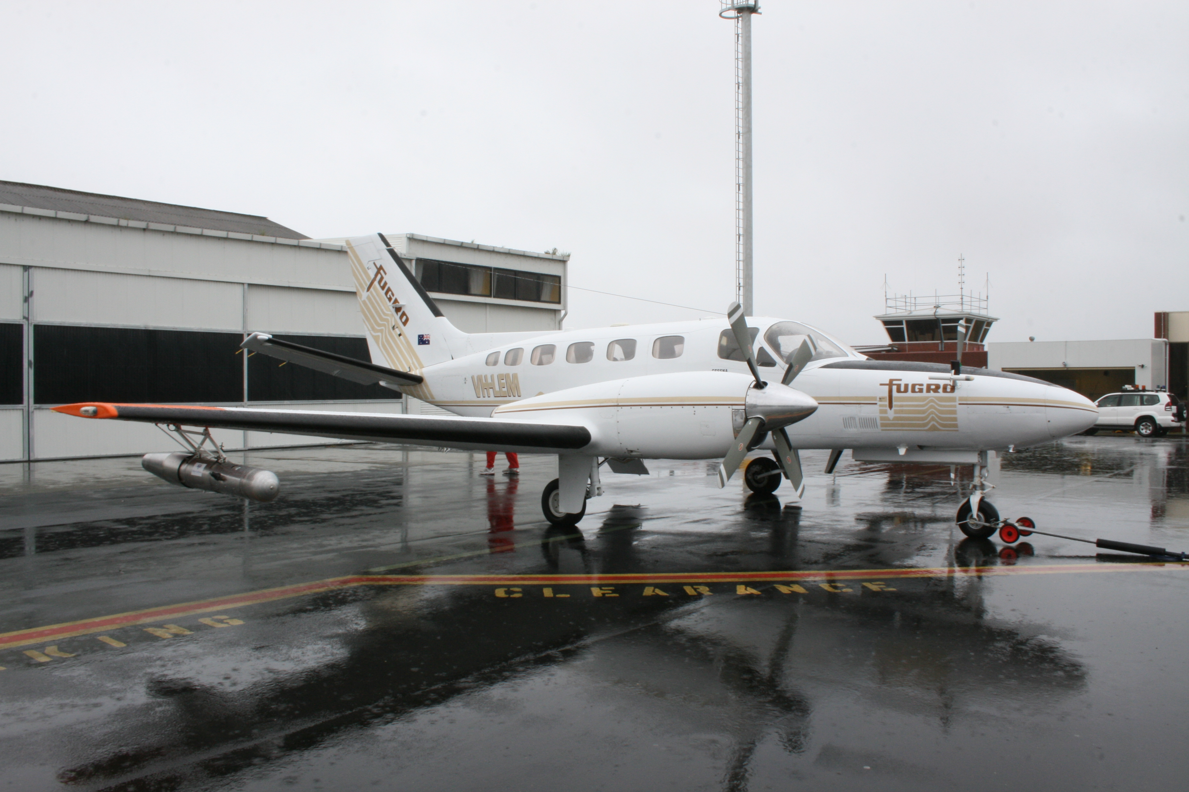 A Cessna 441 Conquest II (VH-LEM) fitted with cloud seeding equipment parked at Hobart International Airport.